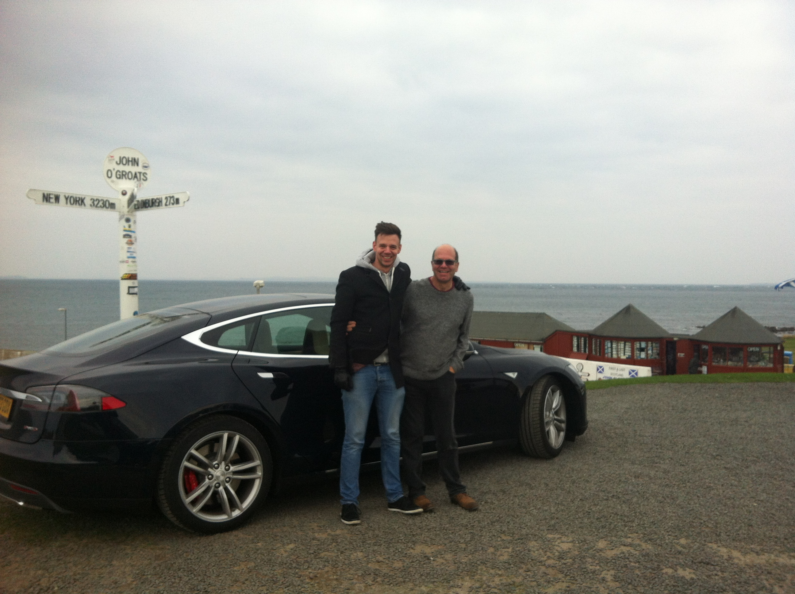 Dr Jeff Allan and his son Ben Cottam-Allan at John o'groats before setting off for Lands End on their return journey